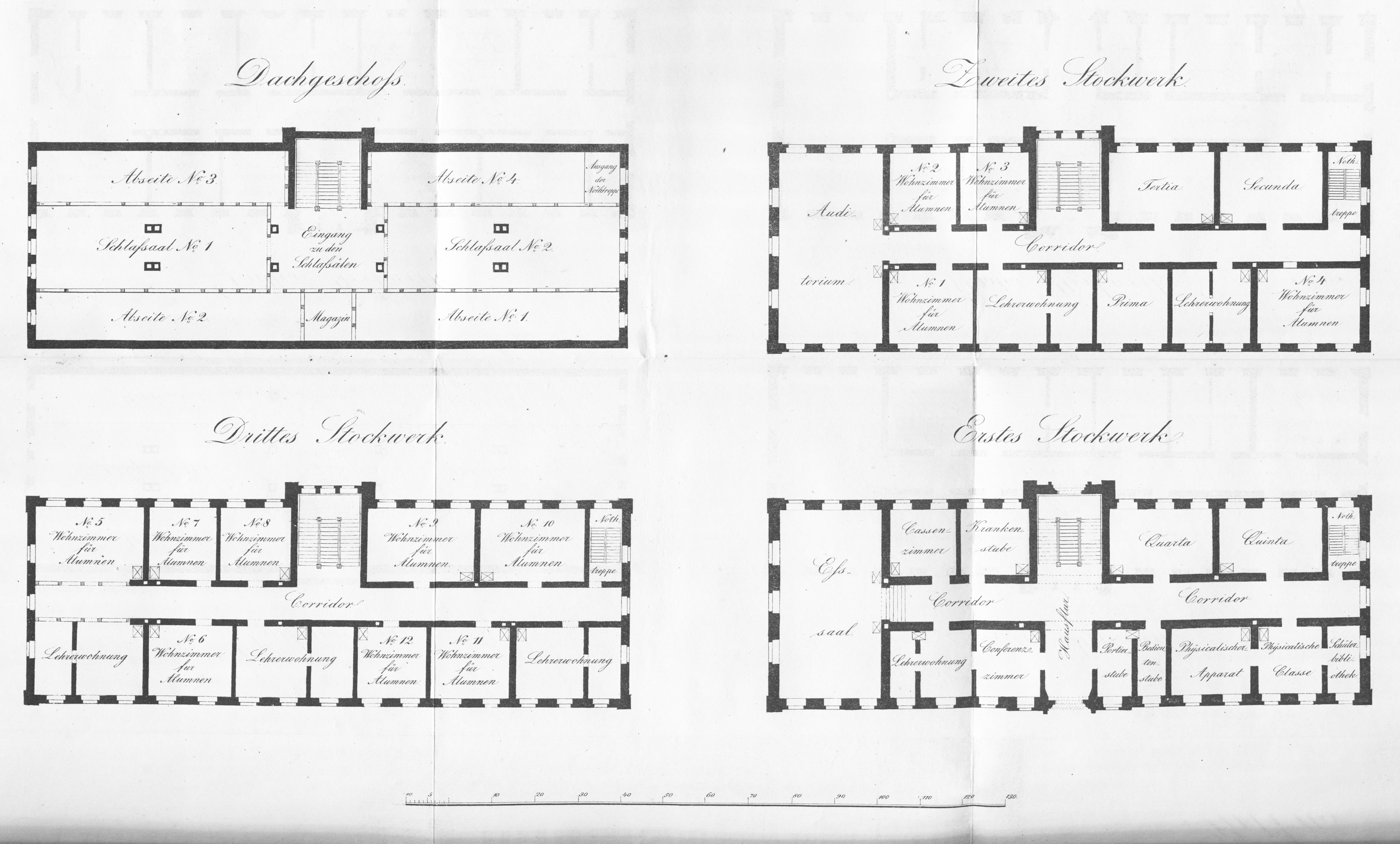 Ansicht und Grundriß des Königl. Pädagogiums zu Putbus, Ground plan of of Paedagogium Putbus in 1839 , Lithography by C. Röpke, scanned from a collection of essays in honor of deFriedrich Koch (Schulrat) collected by Ernst Heinrich Zober, sold in 2012 by Stadtarchiv Stralsund